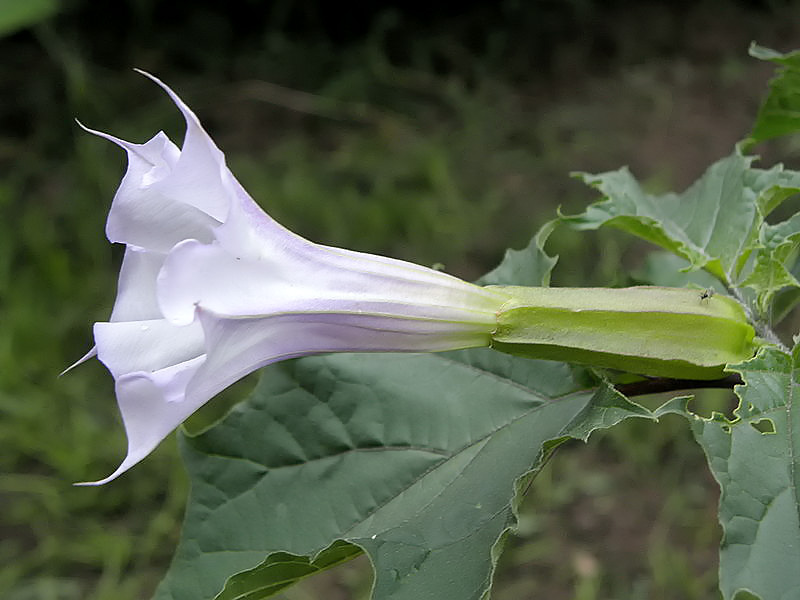 Datura stramonium var. tatula (L.) Torr flower from side